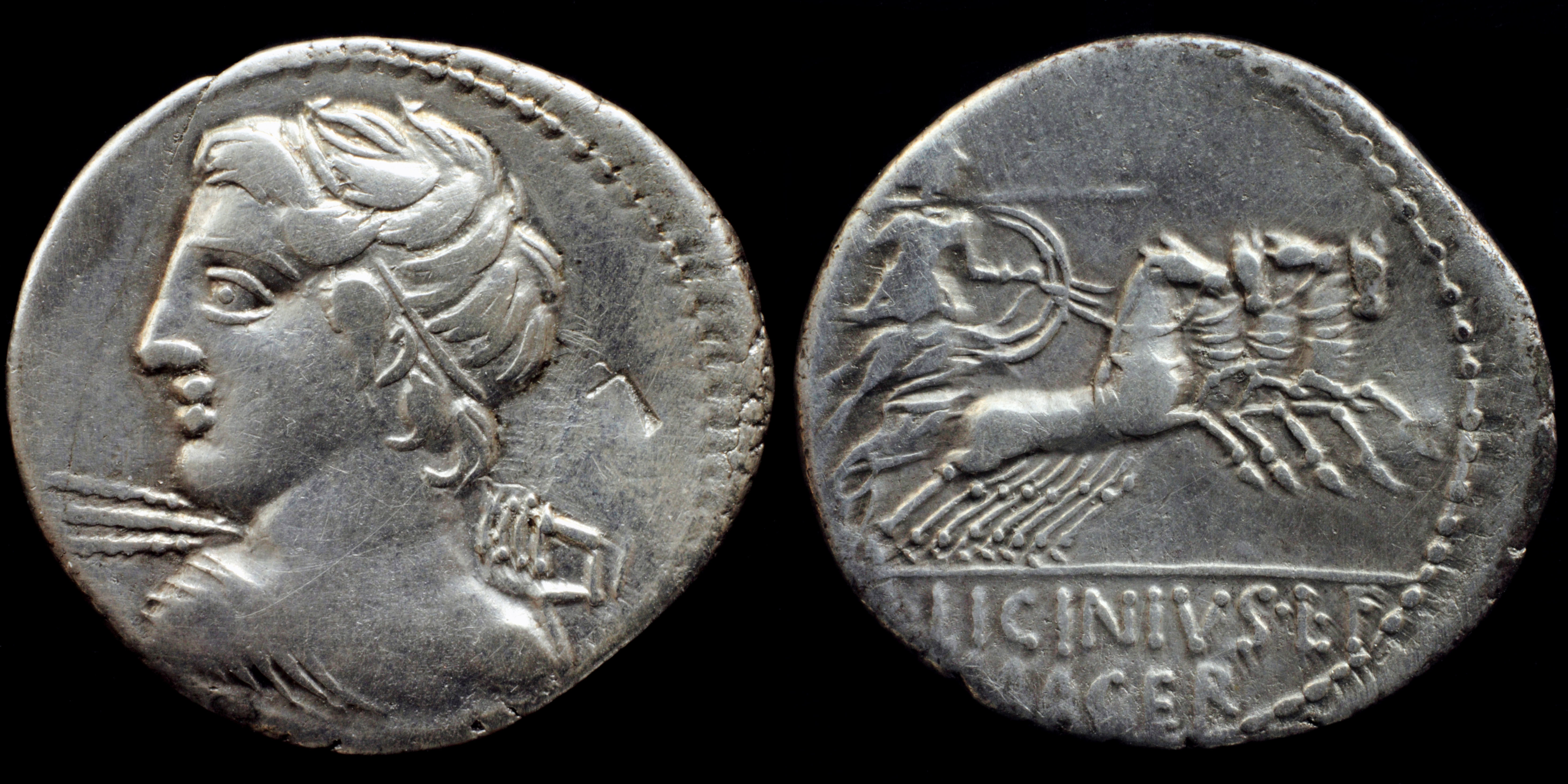 AR denarius struck in Rome 84 BC by C. Licinius L.f. Macer. obverse:diademed bust of Vejovis left, seen from behind, hurling thunderbolt reverse:Minerva in quadriga right with javelin & shieldr C·LICINIUS·L·F / MACER references: Licinia 16; sear5 #274; Cr354/1; Syd 732